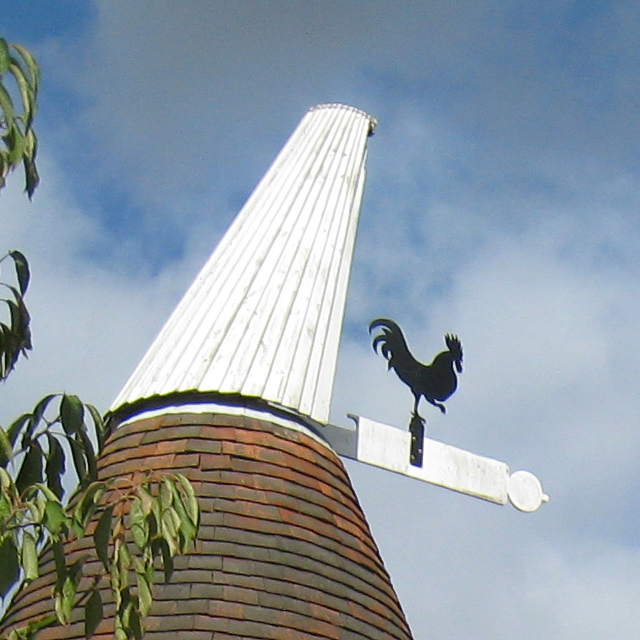 Cowl of Oast House, Mascalls Pound Farm. A large cockerel icon sits proudly on the cowl vane. See whole building 988912